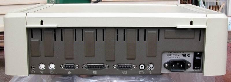 Image of the new back port openings for an Apple IIe with the IIGS motherboard upgrade. Taken from (Permission has been received from the copyright holder to make use of this image on Wikipedia)